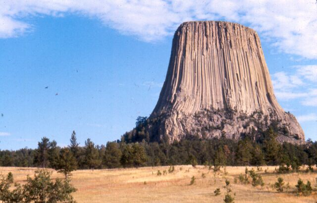 Devils Towers West wall is a direct vertical climb of 600 ft